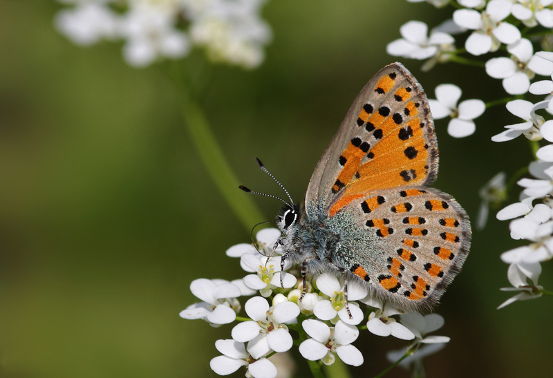 Underwing view of a Nogel's hairstreak butterfly (Tomares nogelii). Tarsus, Icel, TurkeyTürkçe: Anadolu gelinciği (Tomares nogelii) kanat altı görünümü. Tarsus, İçel, Türkiye